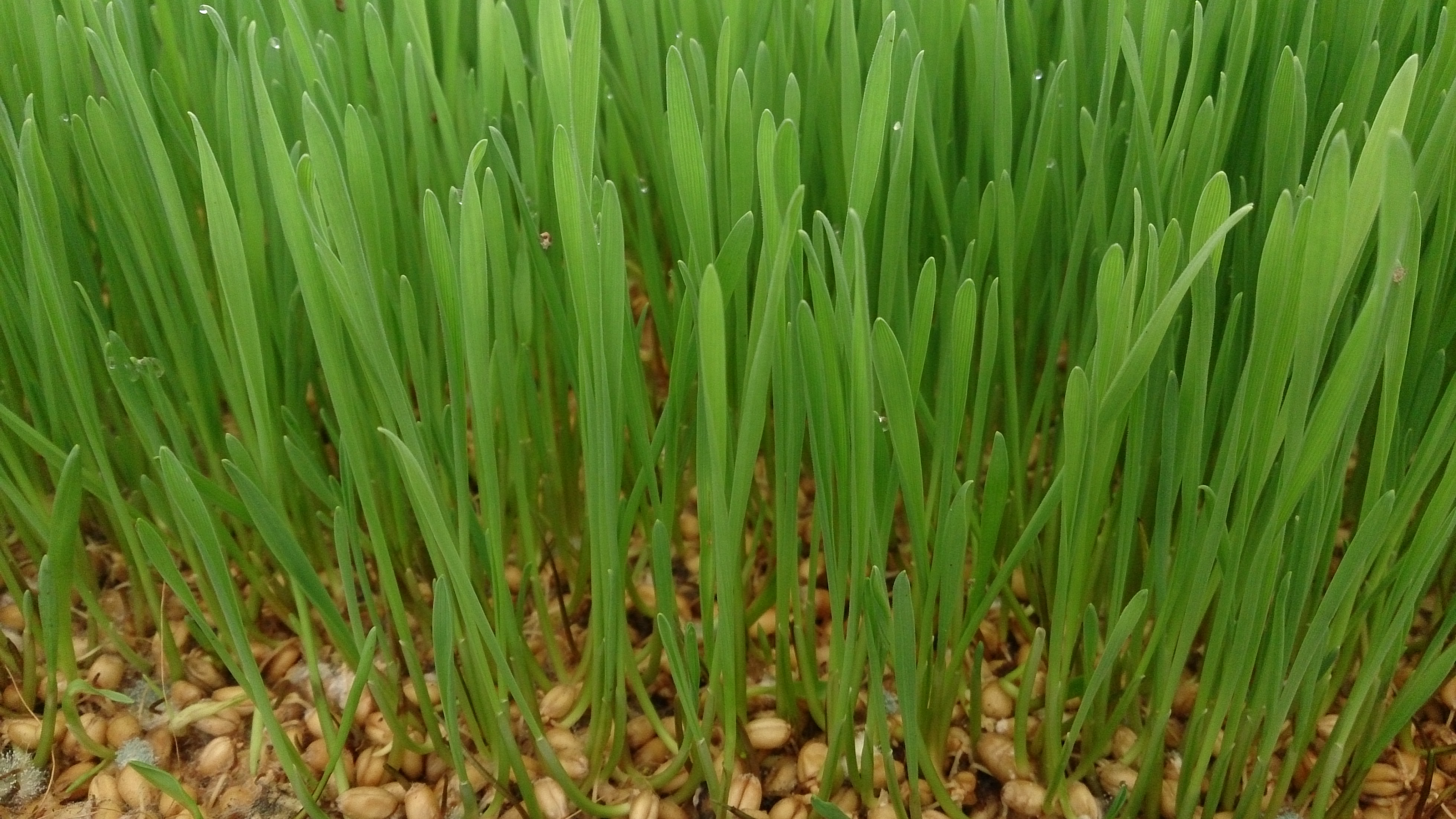 Triticum aestivum. Common name: Wheatgrass.